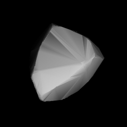 3D convex shape model of 1013 Tombecka, computed using light curve inversion techniques. J. Hanuš, J. Ďurech, M. Brož, B. D. Warner (June 2011). "A study of asteroid pole-latitude distribution based on an extended set of shape models derived by the lightcurve inversion method". Astronomy and Astrophysics 530: A134. ISSN 0004-6361. arXiv